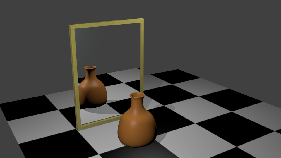 3d mirror, plane mirror, reflection